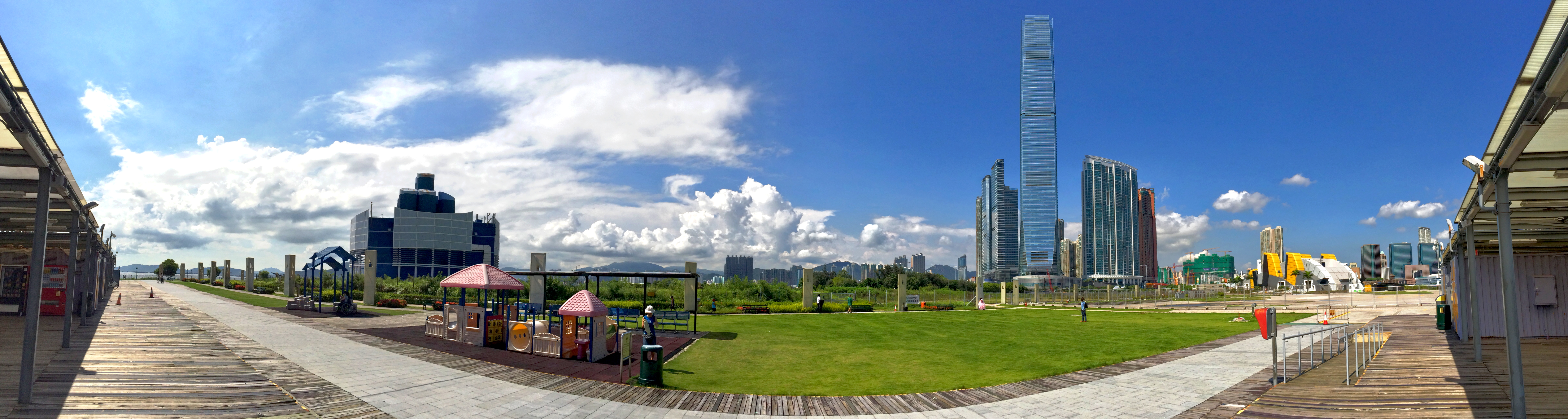 West Kowloon Waterfront Promenade